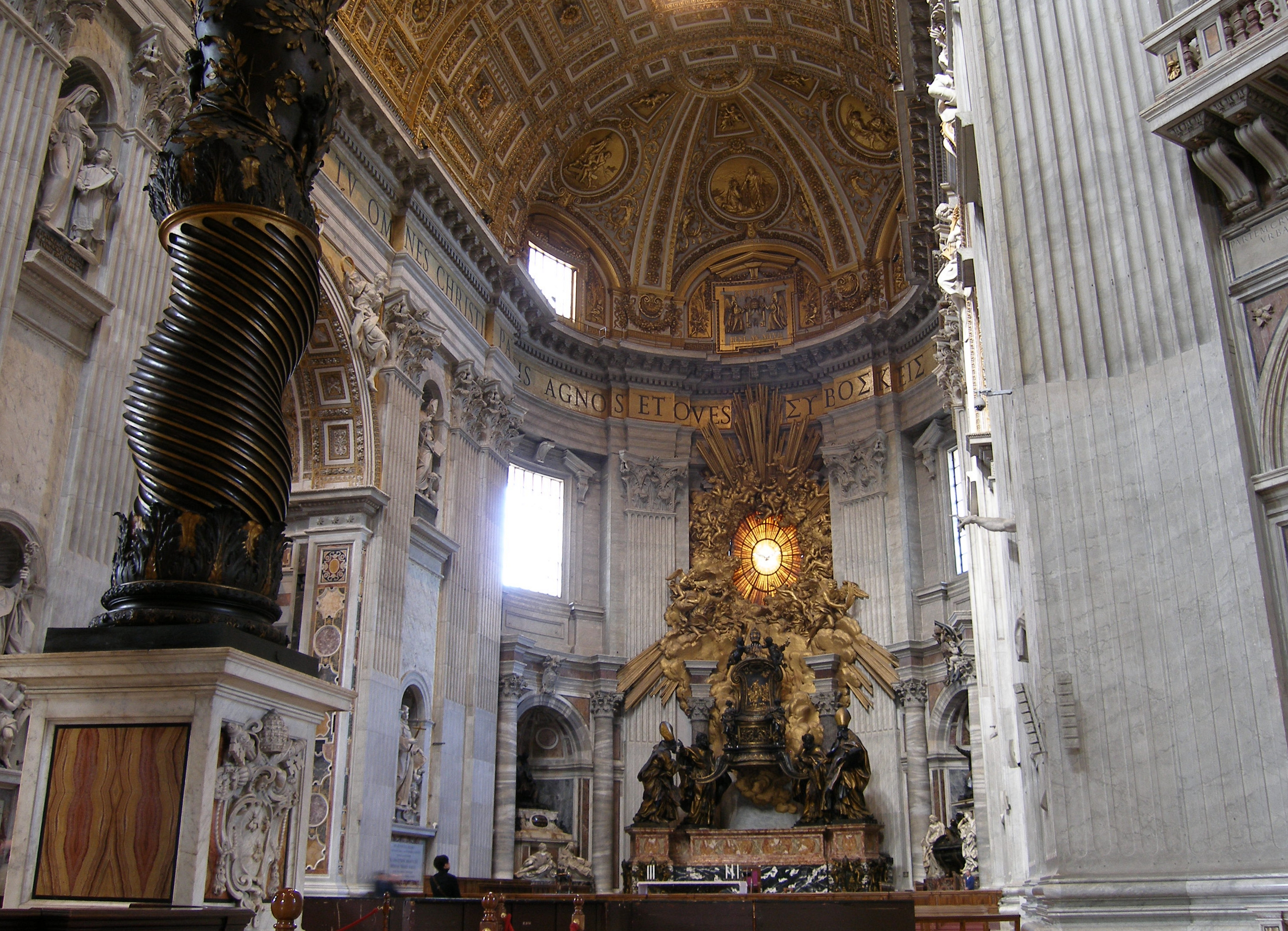 Rome, Vaticane, Chair of Saint Peter in St. Peter's Basilica